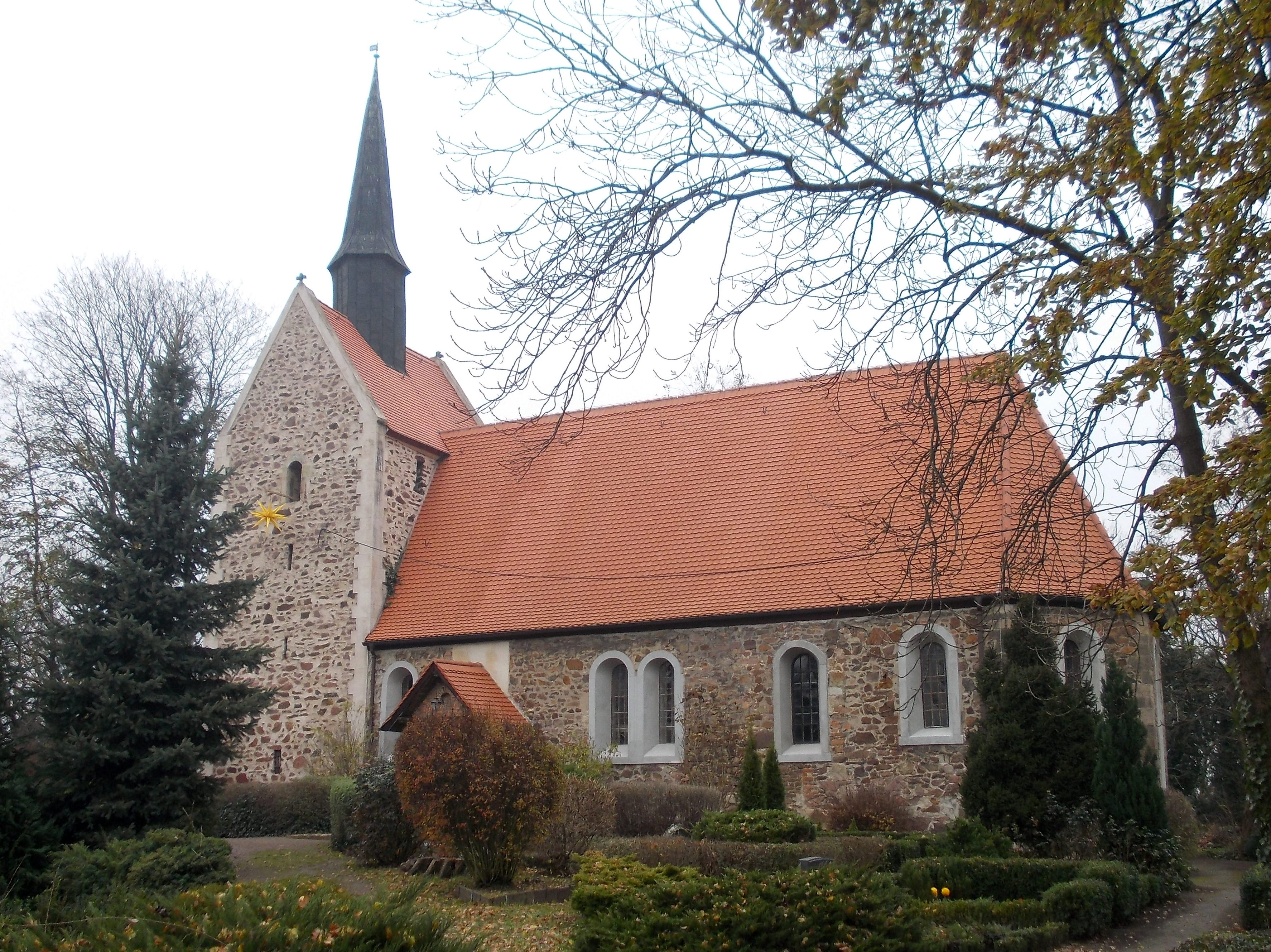 St. Nicholas' Church in Gutenberg (Petersberg, district: Saalekreis, Saxony-Anhalt)